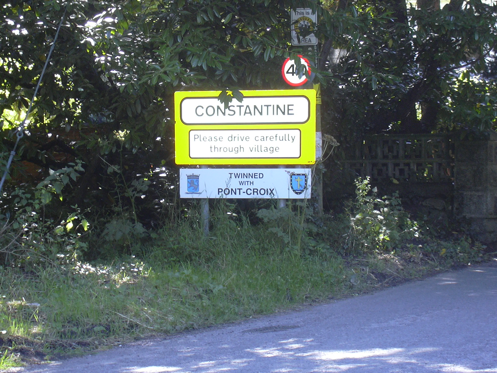 Sign on road at Ponjeravah, indicating that driver is approaching Constantine Village, twinned with Pont-Croix.